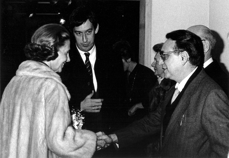 Queen Fabiola shaking the hand of dr. fil. Paul Kempeneers